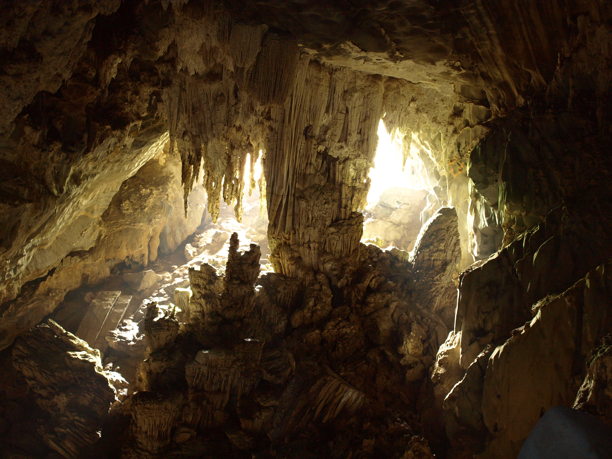 Caverna-Morro-Preto-Parque Estadual Alto Ribeira-Iporanga-Brasil